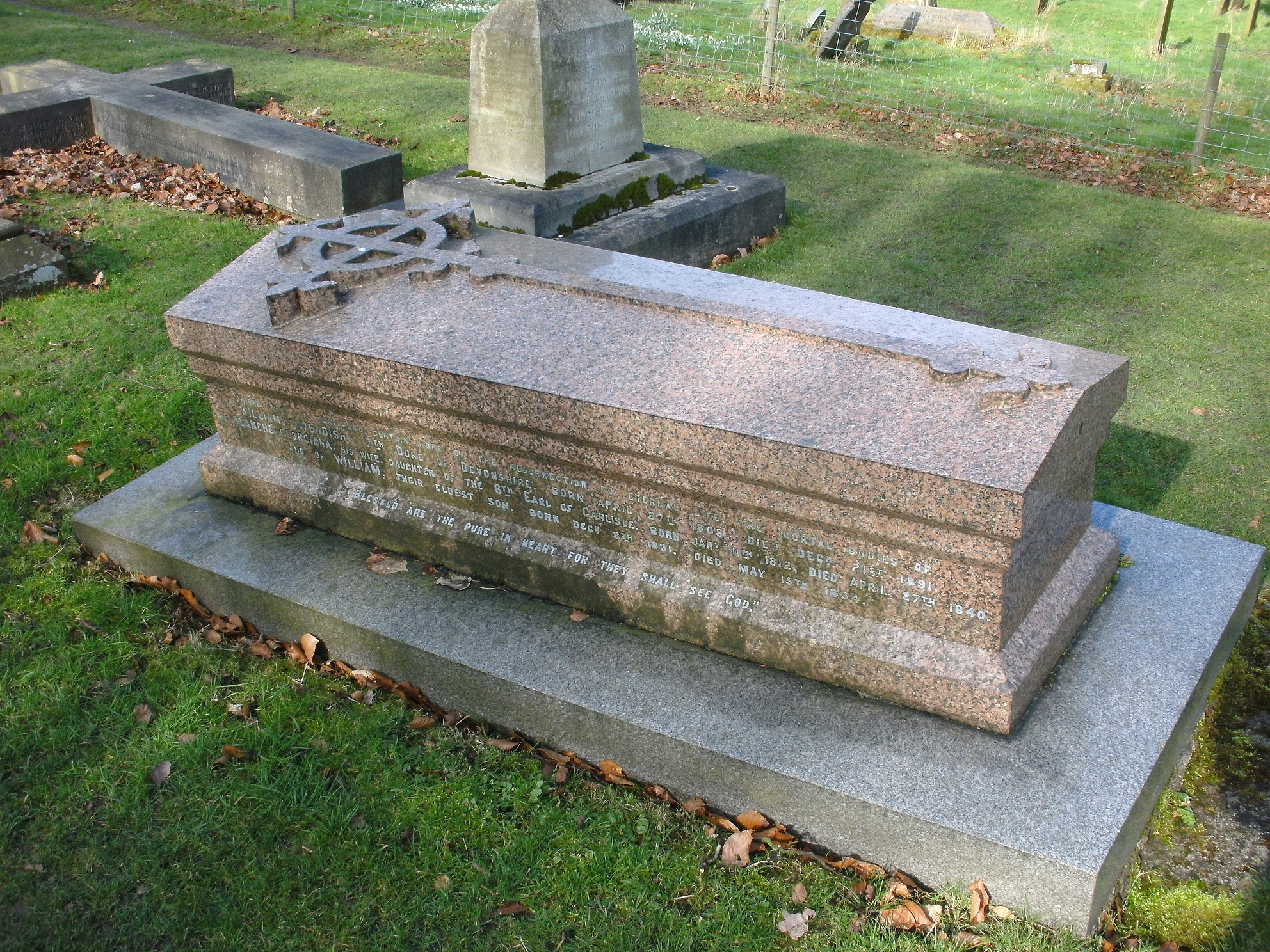 St Peter's Churchyard, Edensor - grave of William Cavendish, 7th Duke of Devonshire KG, PC (1808–1891)